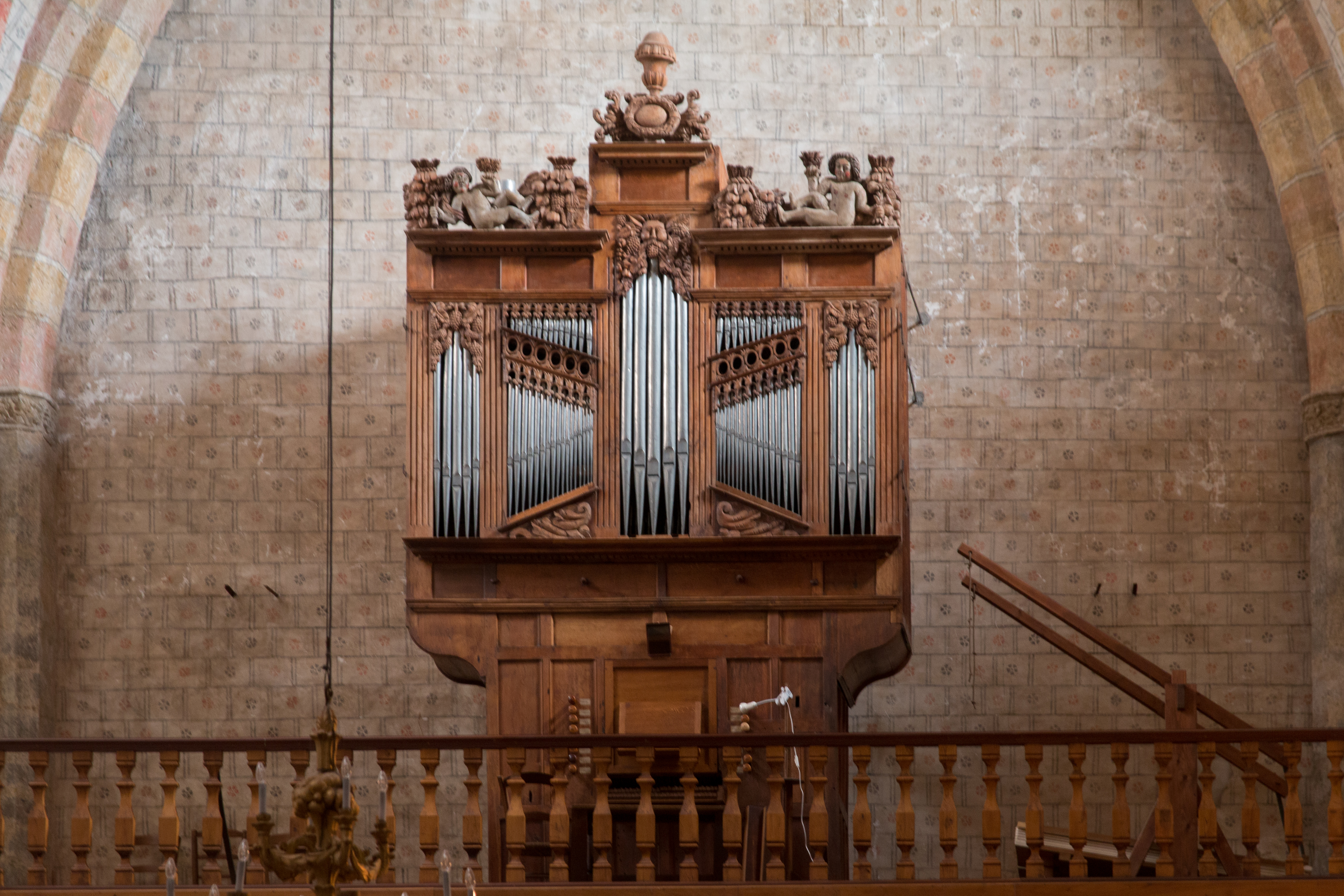 Platform pipe organ, moved from the episcopal Palace, restored..